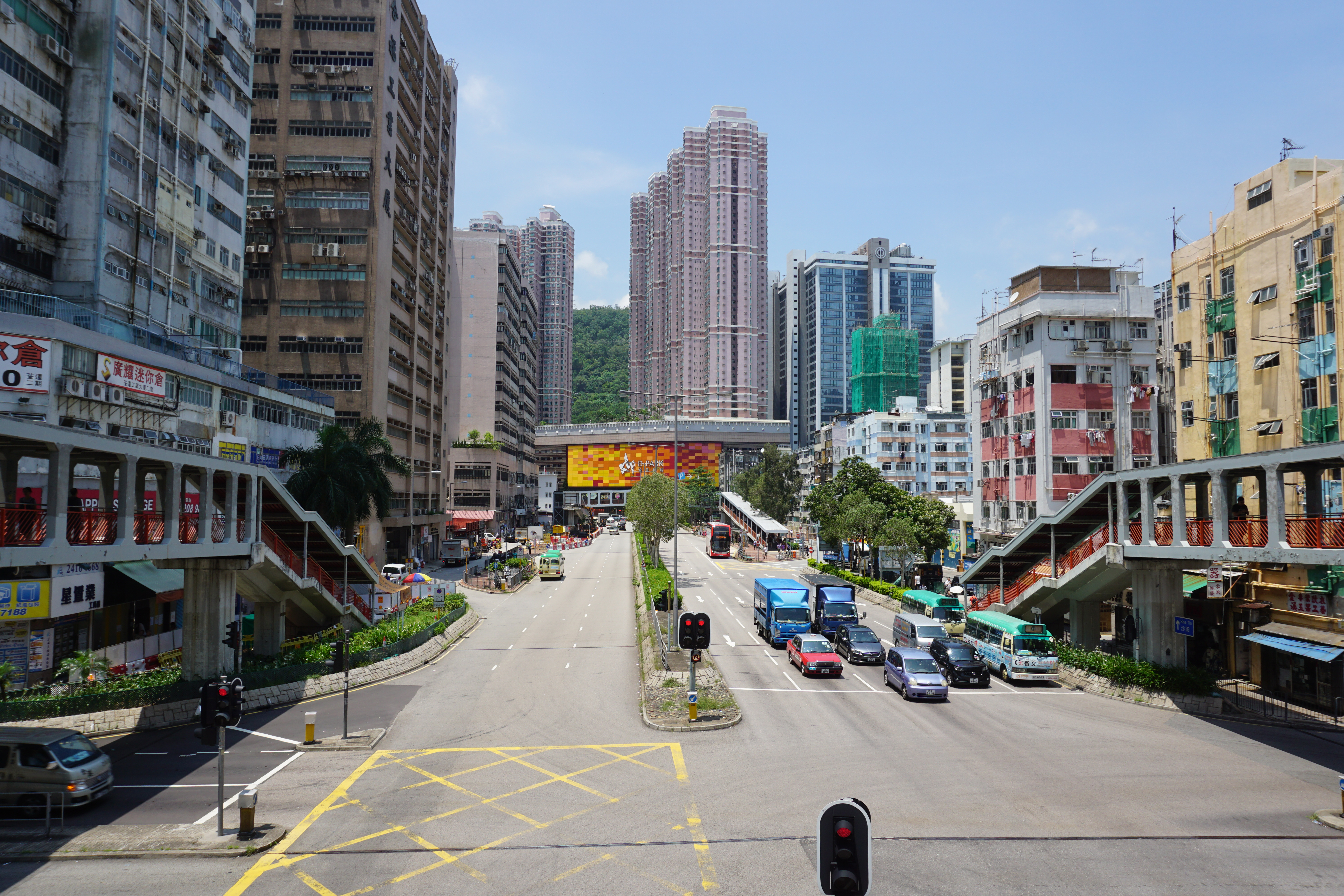 Tai Chung Road in Tsuen Wan, Hong Kong.